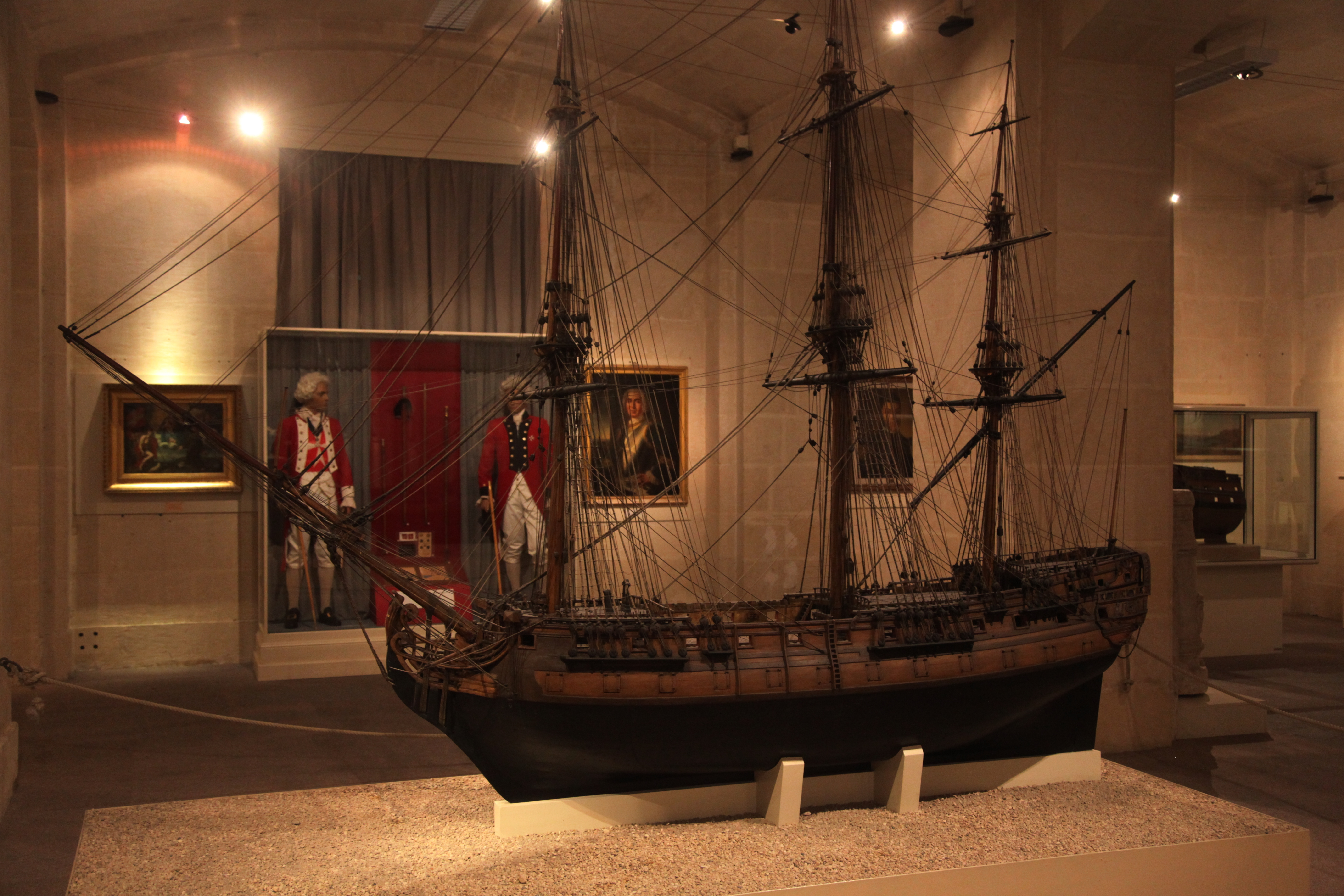 Third rate ship-of-the-line (Mid 18th century). A contemporary model of a vessel of the order of St. John, probably used at the local naval school. Presented by Profs S. L. Pisani 1905. Model in the Maritime Museum, Vittoriosa (Birgu), Malta